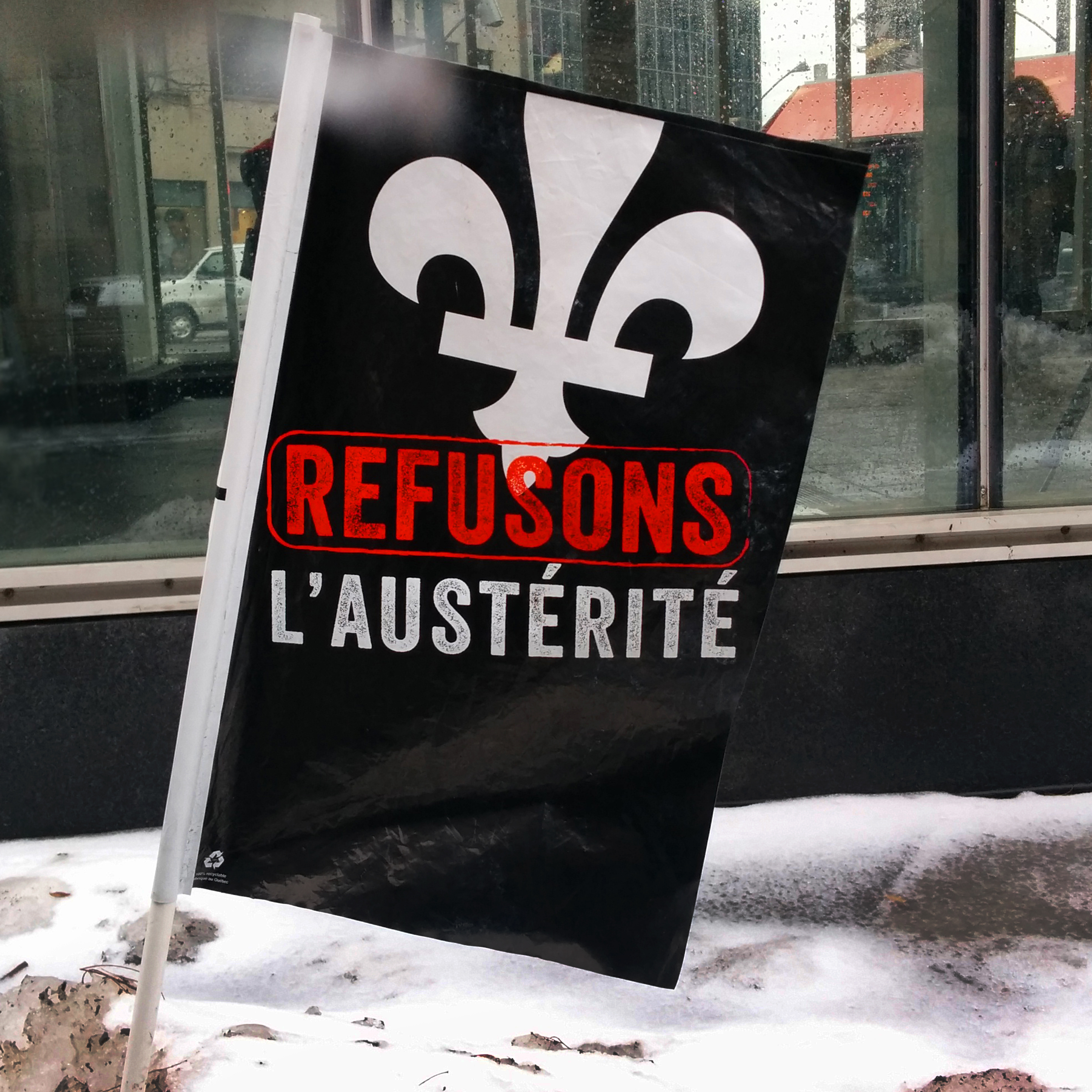 A black plastic flag with a fleur-de-lis and the words "Refusons l'austérité" in French ("Refuse Austerity", in English) commonly used in 2015-2016 at anti-austerity demonstrations in Quebec is planted in the snow near the Square-Victoria metro station in Montreal on 3 February 2016.